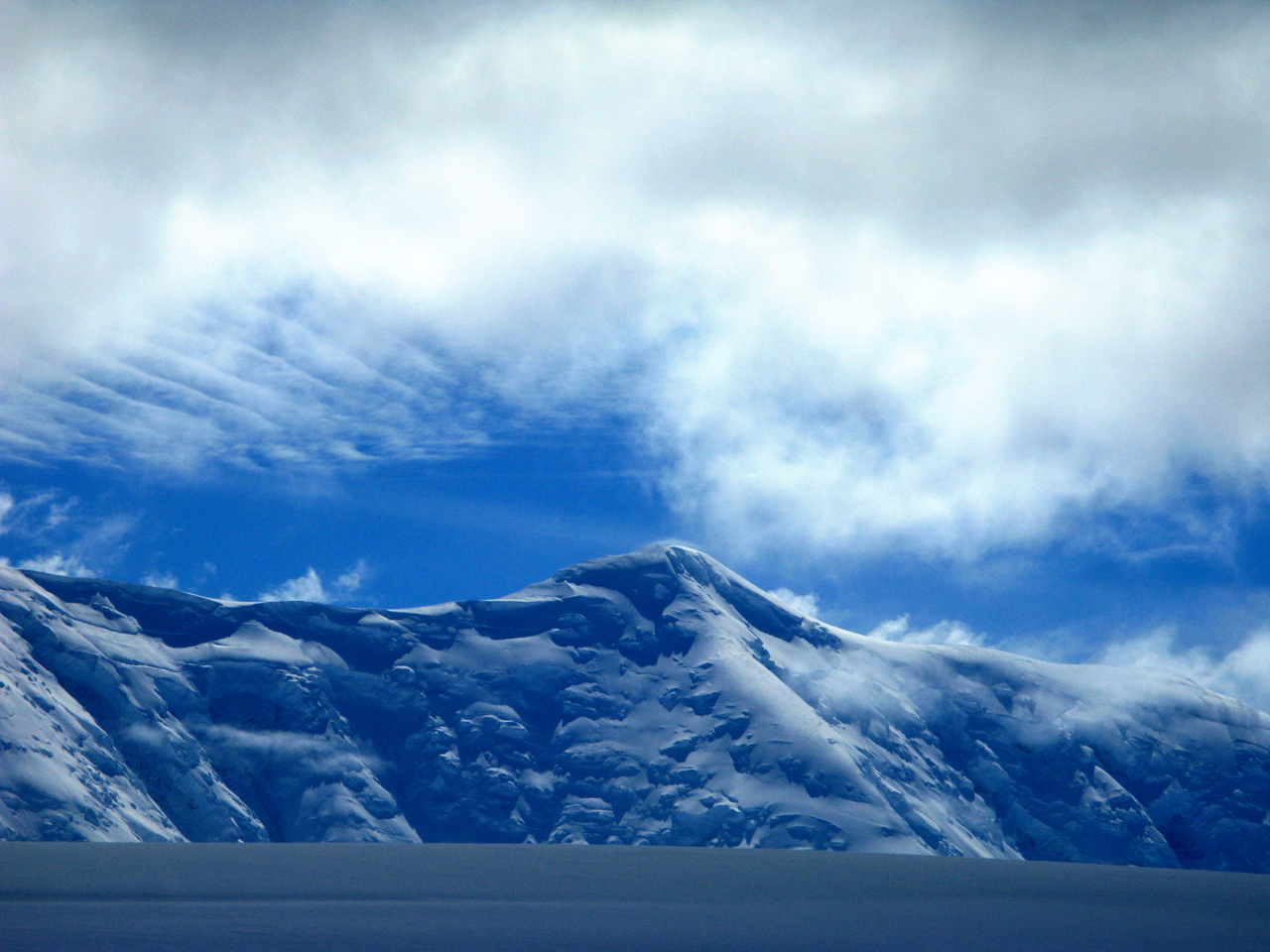 Mount Francais (2 760 m). Anvers Island - peninsula Antarctica